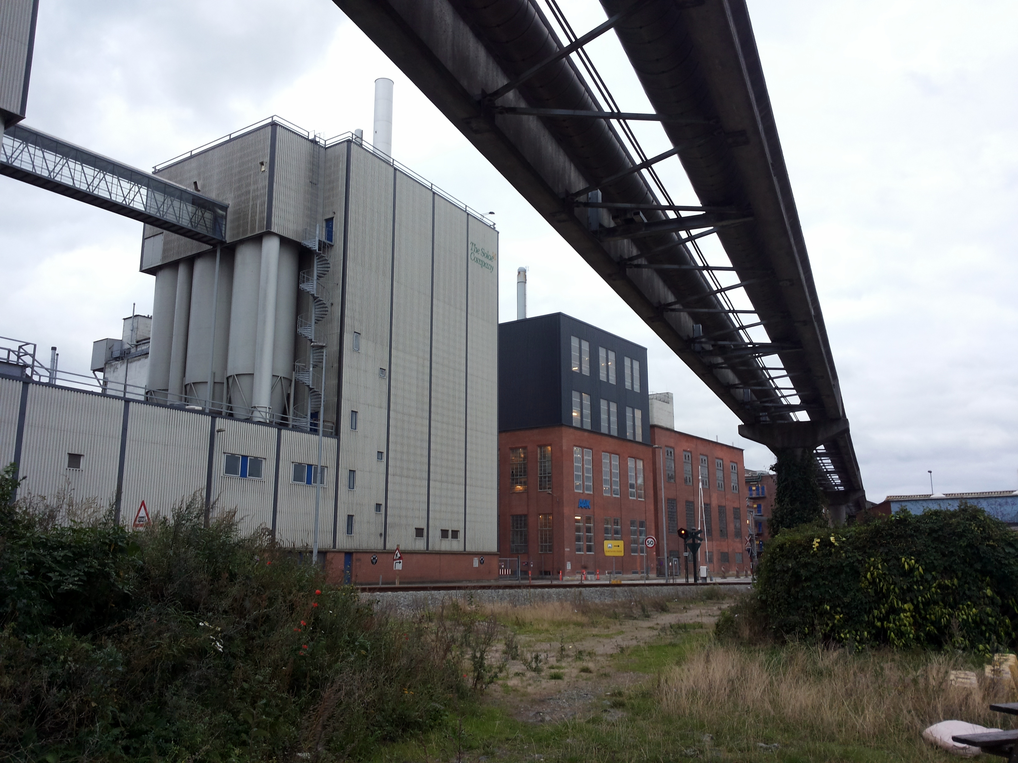 Kulbroen, South harbor, Aarhus